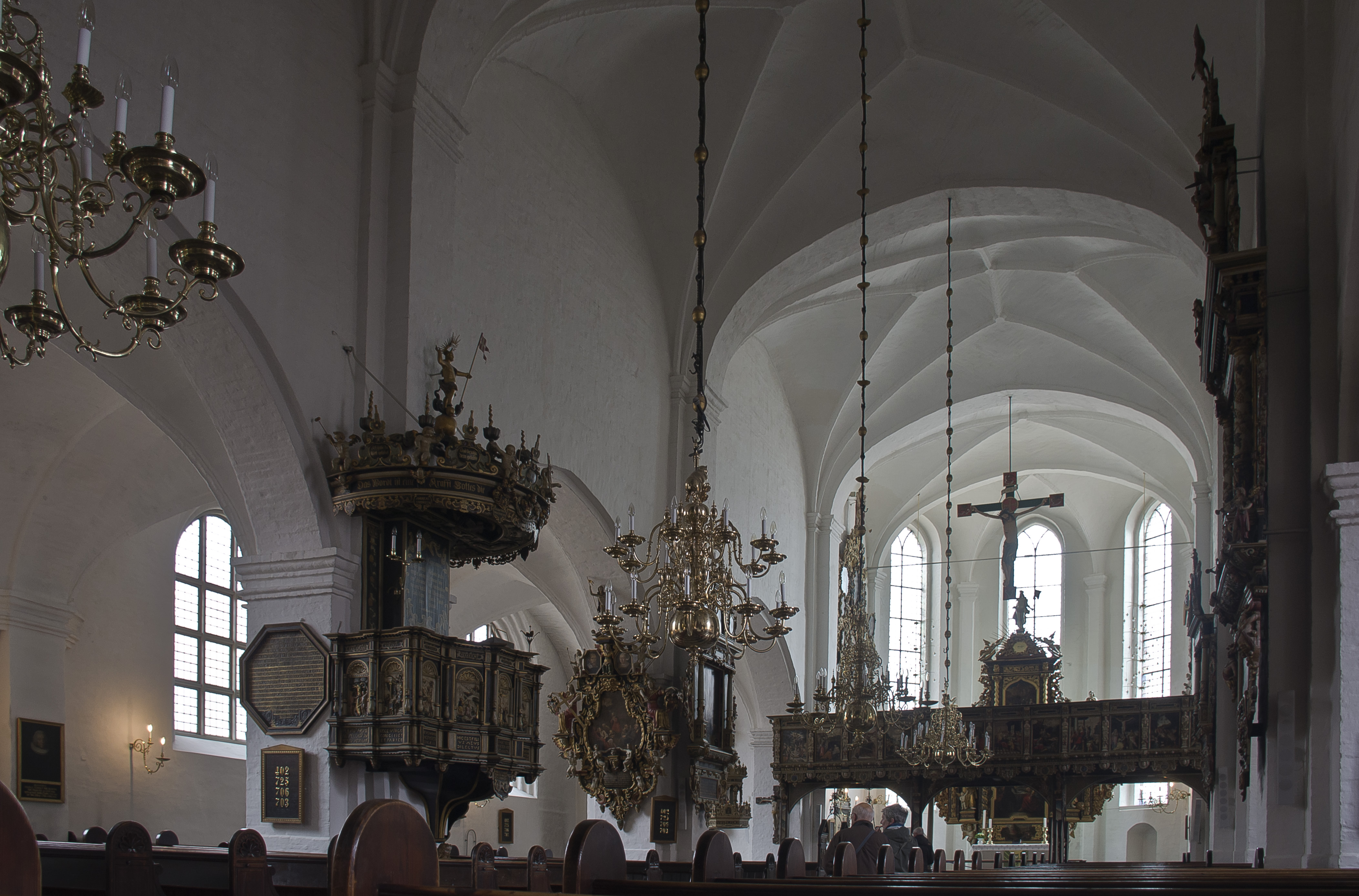 Tønder, Denmark. Christ Church, Interior